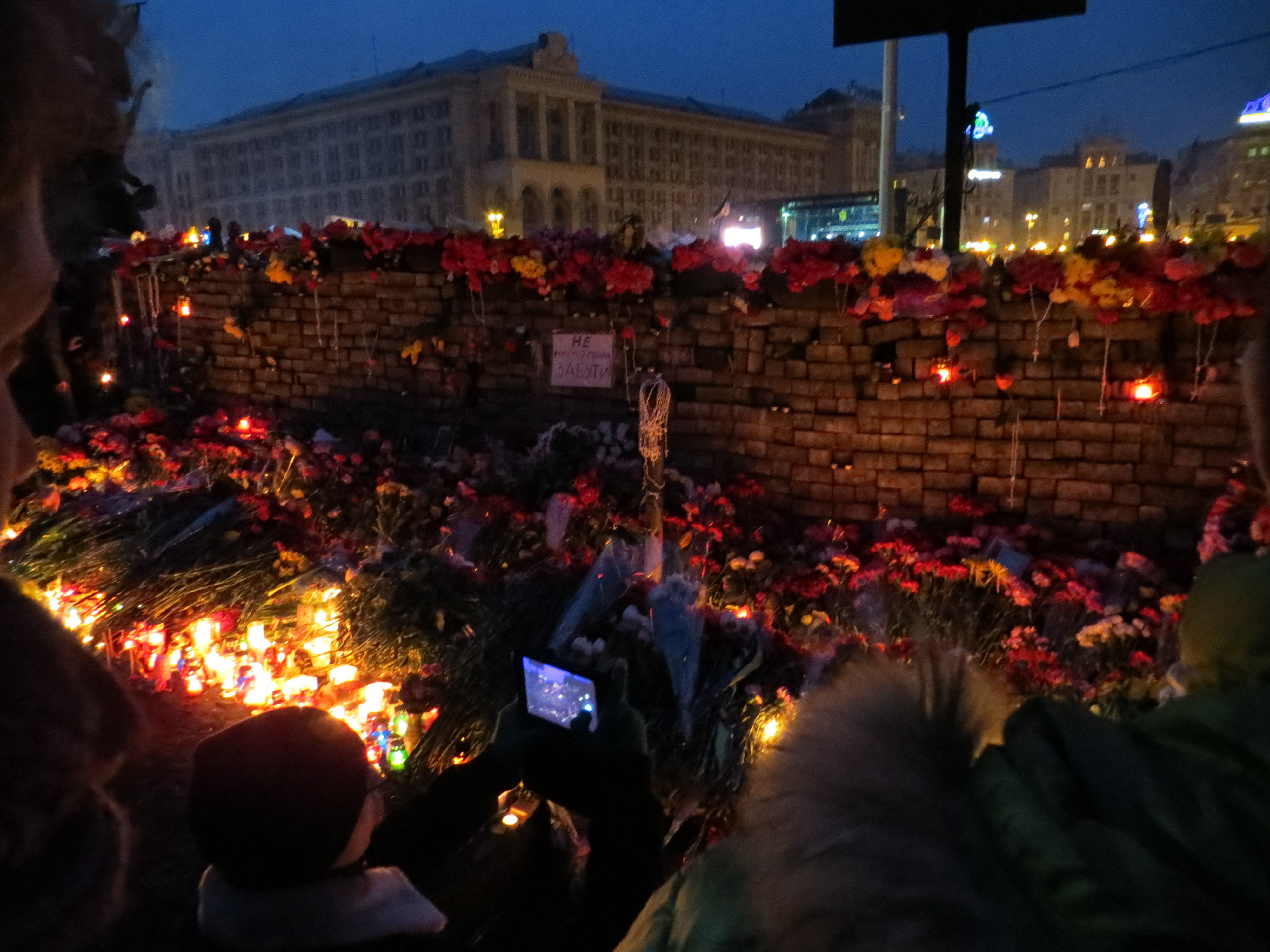 Euromaidan, Kyiv. February 23, 2014